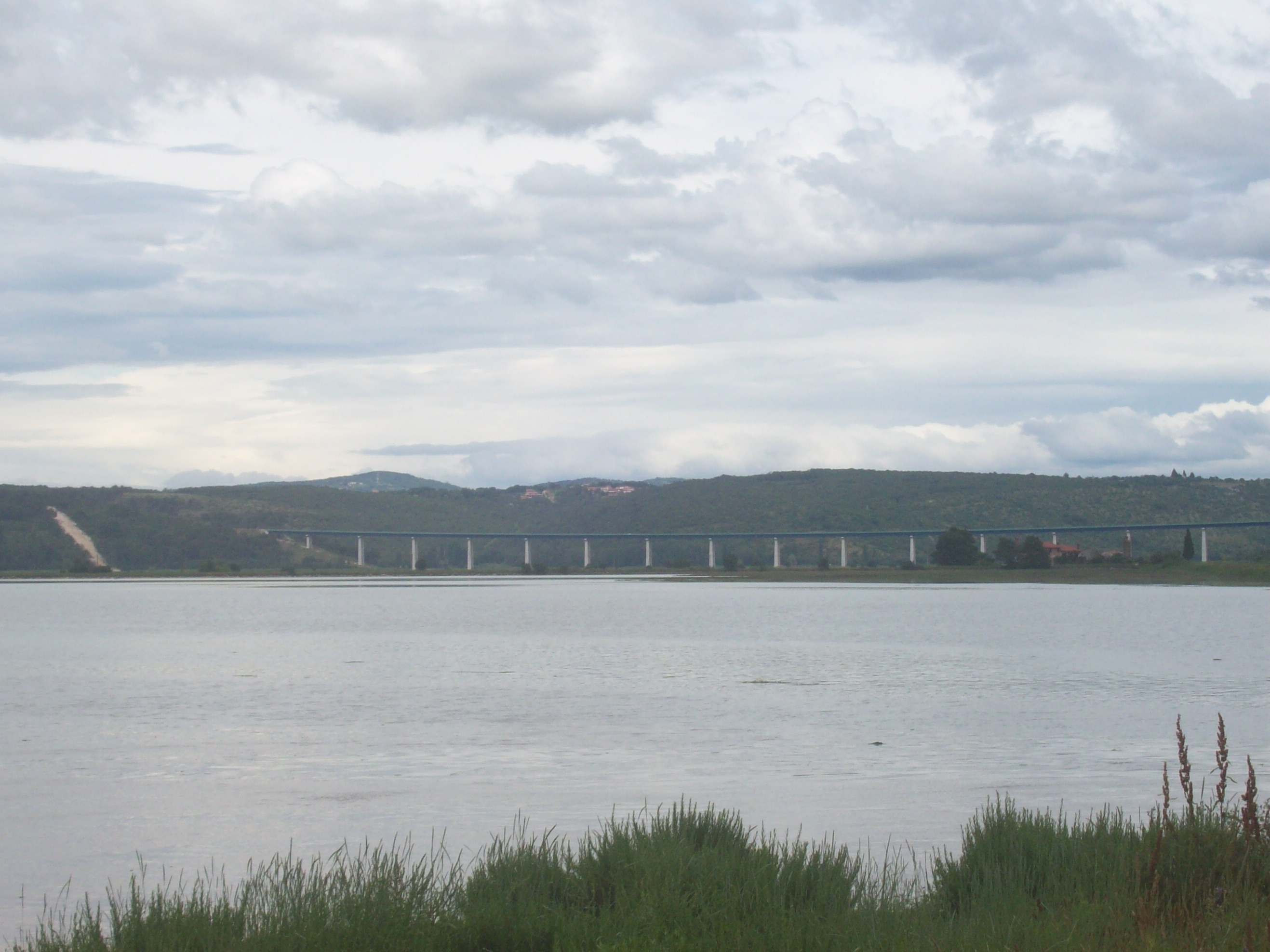 Mirn abridge from west